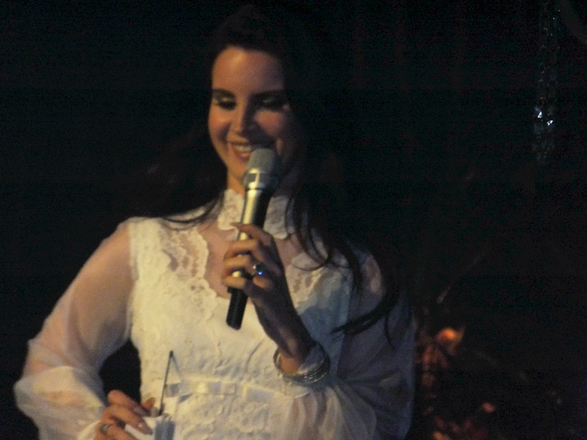 Lana Del Rey performing live at Manchester, O2 Apollo on Thursday 23rd May 2013.